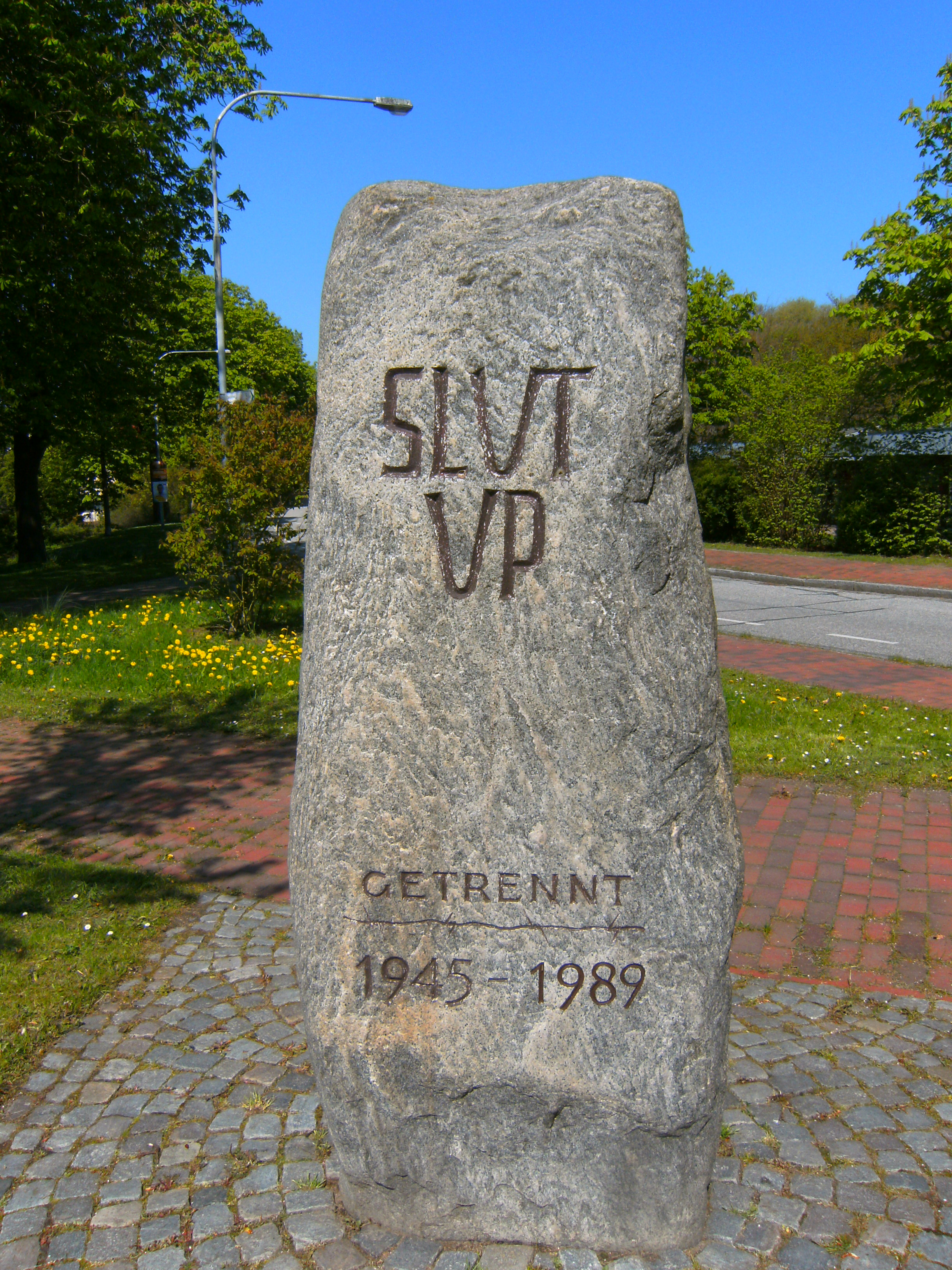 Lübeck-Schlutup, Germany: Documentation house GDR in the Mecklenburger Straße 12. Nearby monolyth in memory of devided Germany by GDR frontier.